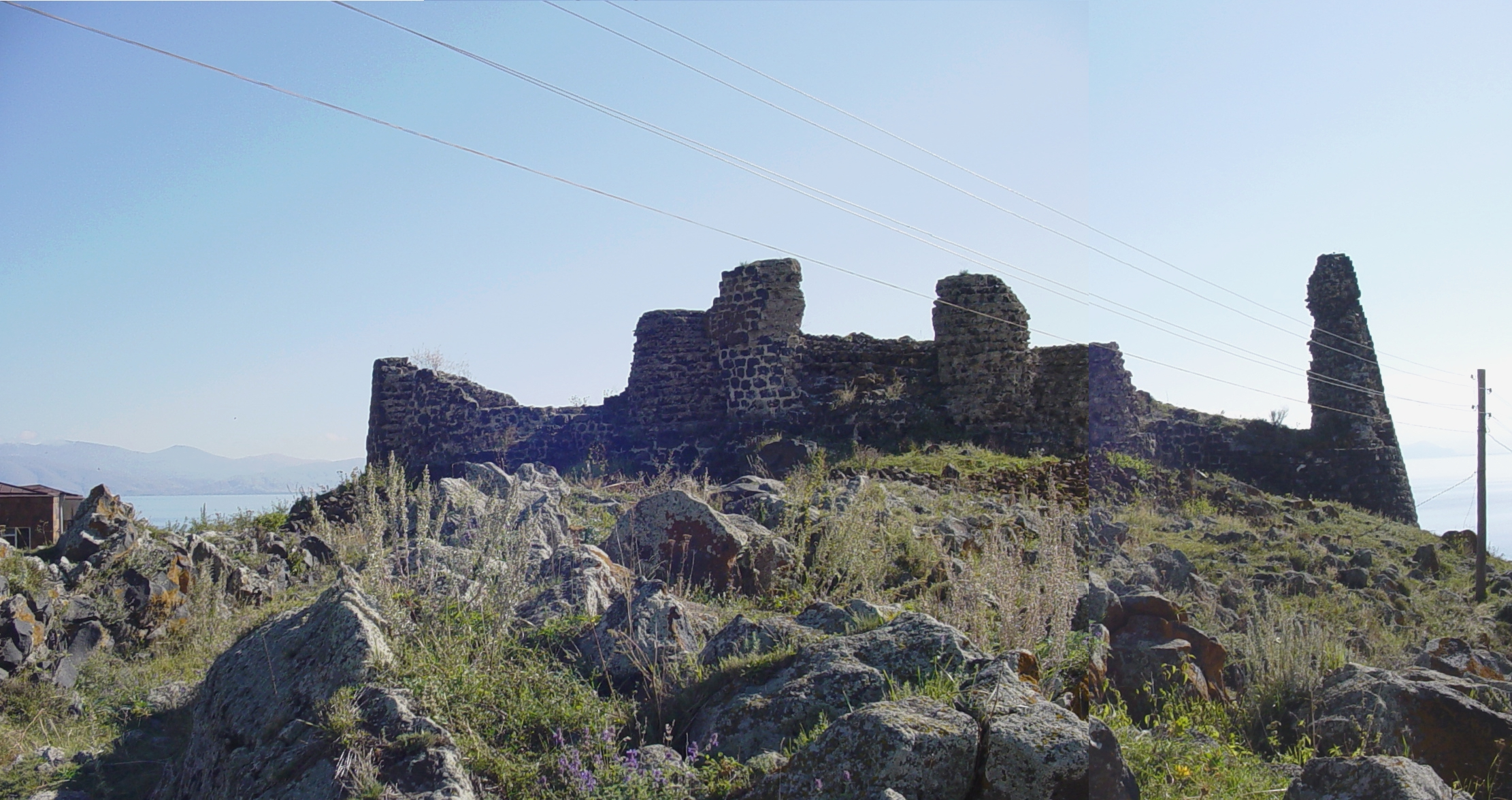 Fortress Spitak Berd (White fortress) (Berdkunk, Aghkala, Ishkhanats Berd), 2-1 mil BC, 10c.